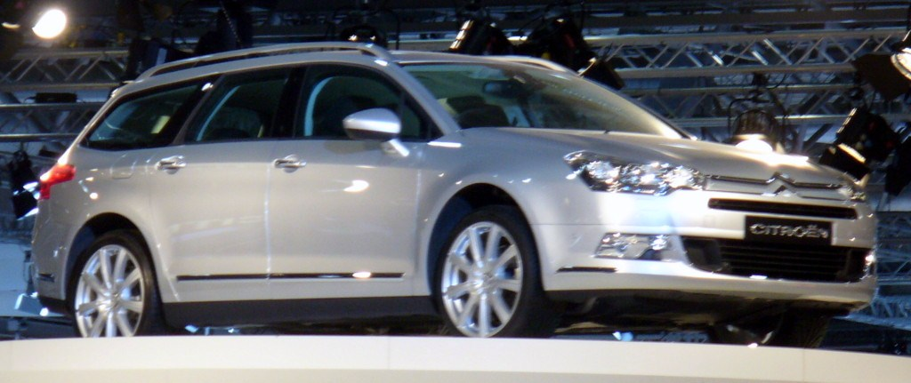 Citroën C5 Tourer